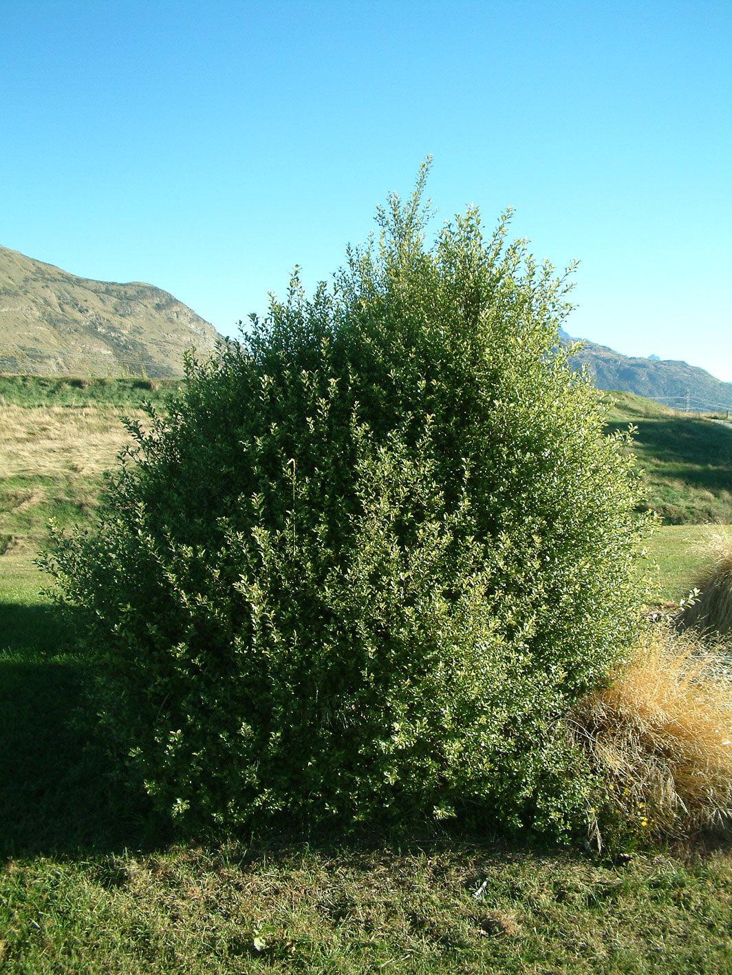 Pittosporum tenuifolium tree (kohuhu), Queenstown New Zealand